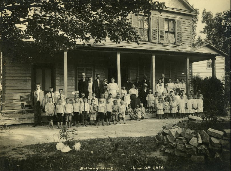 Bethany Home for Friendless Children, 1914, in Virginia